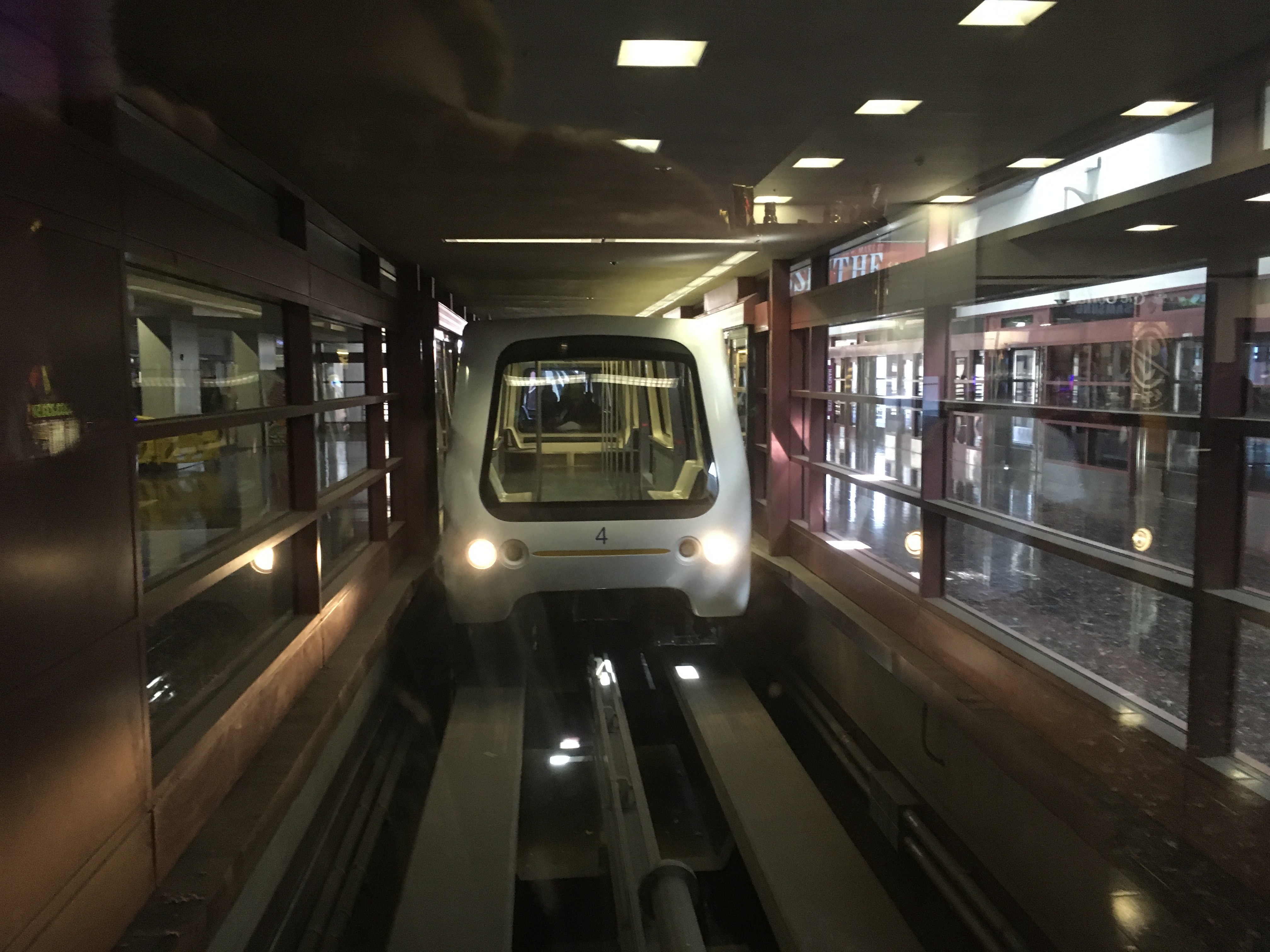 Train at C Gates